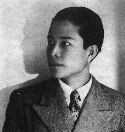 Jiang Wen-Ye